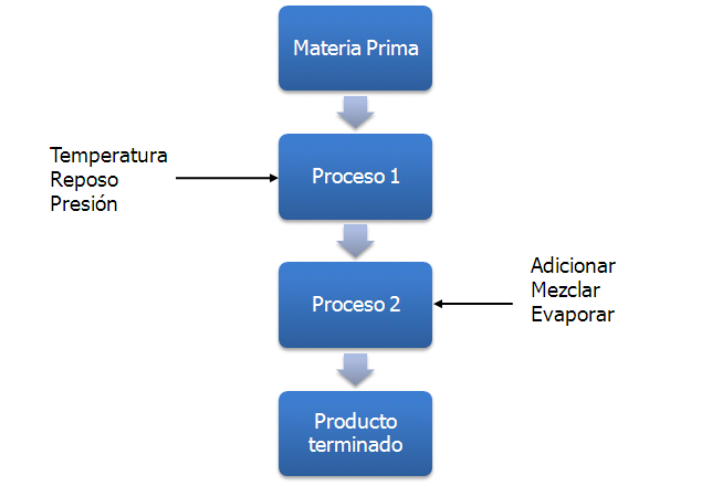 Example used in the Spanish Wikipedia, on the Wikiproyecto:Alimentos for porpuse of argument.